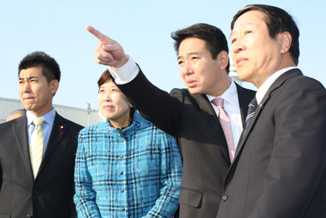 Seiji Maehara, Minister of State for Okinawa and Northern Territories Affairs, and Kenta Izumi, Parliamentary Secretary of Cabinet Office, inspected Habomai Islands with Shunsuke Hasegawa, Mayor of Nemuro City, at Cape Nosappu in Nemuro City, Hokkaidō on October 17, 2009.(For terms of use, see 内閣府ホームページ利用規約 - 内閣府.)